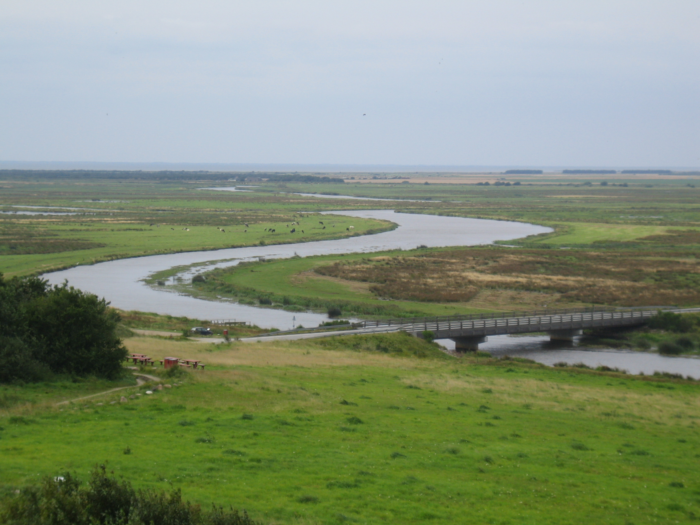 View from Lønborg Kirke to Nationalpark Skjern Å in Denmark